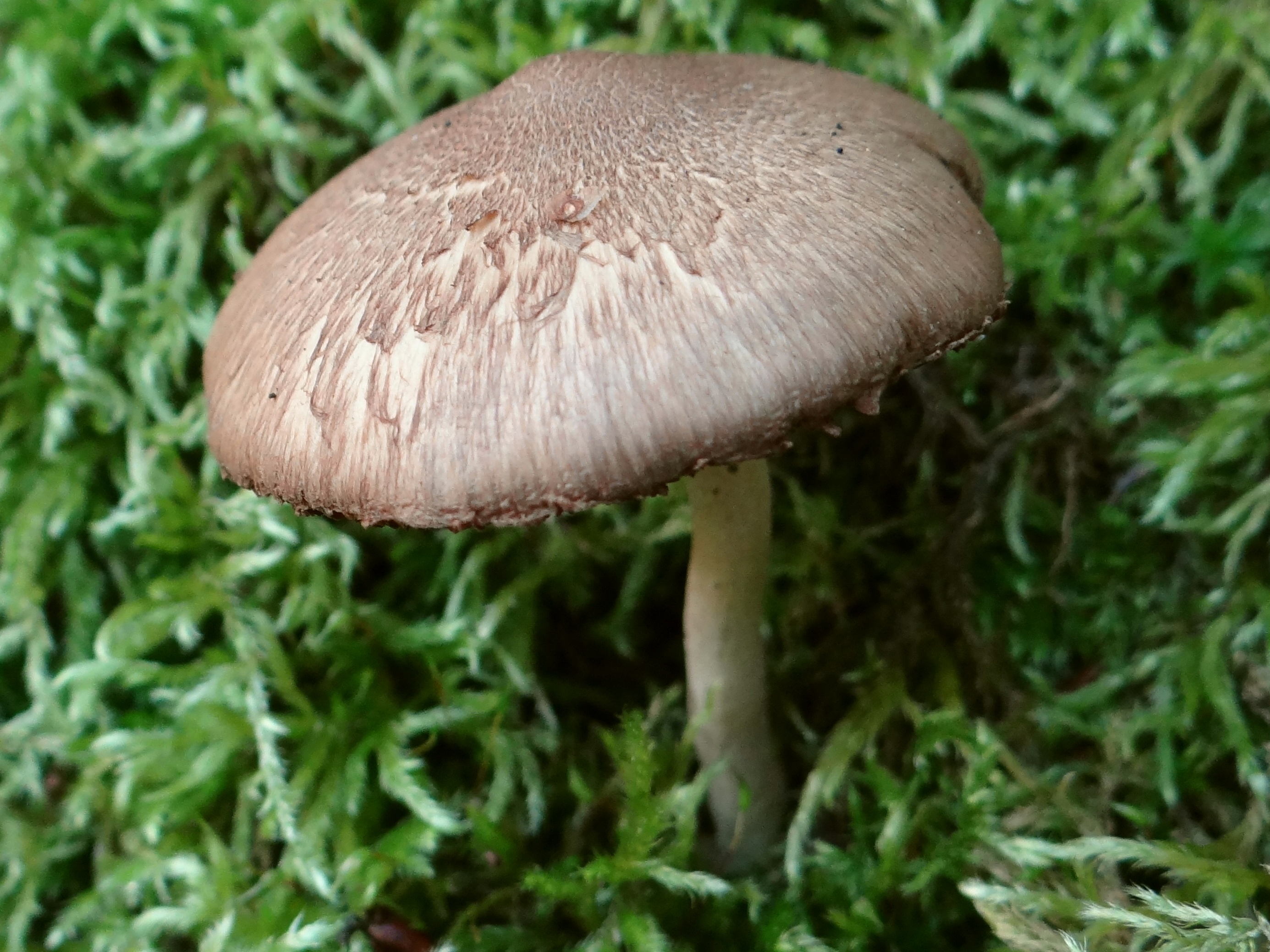 Inocybe flocculosa (location: Poland, Rybie Stare)